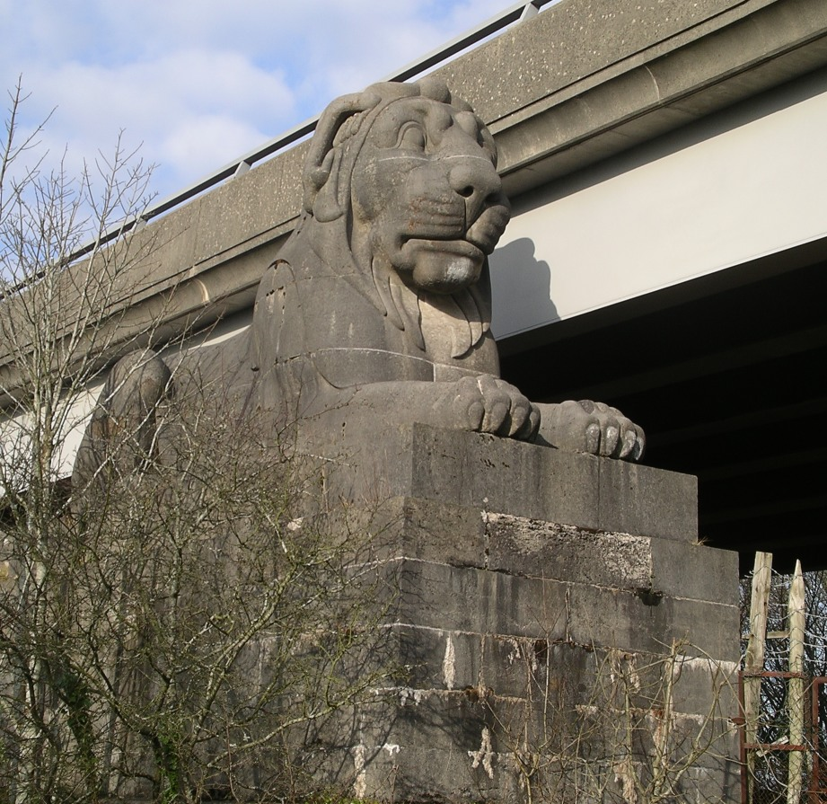 Britannia Bridge – monumental Lion statue. One of the 4 monumental sculptures of lions constructed to greet passengers travelling over the Britannia Bridge. View of these lions is now obscured by the road deck constructed after the 1970 fireLocation: Britannia Bridge, Menai Strait, Anglesey